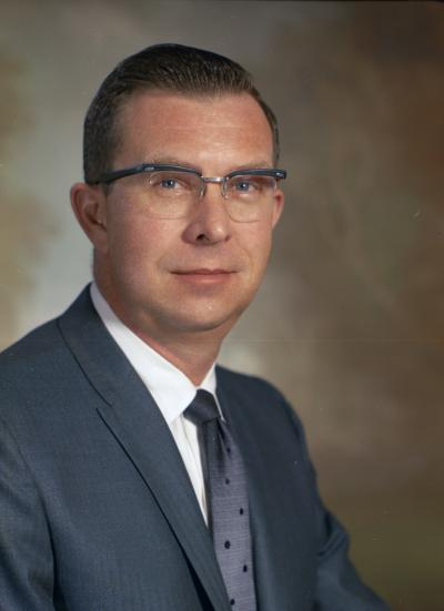 Representative Thomas L. Copeland, 1967